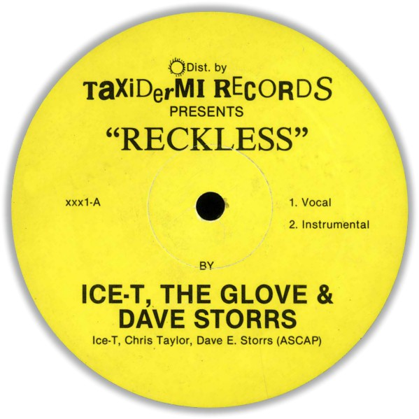 Side A of Ice-T, Chris "The Glove" Taylor and Dave Storrs 12-inch single "Reckless" / "Tebitan Jam". This record is a 1990's repressing of the single "Reckless" / "Tebitan Jam" on Taxidermi Records which contain the previously unreleased instrumental versions of each track. The record was originally released in 1984 on Polydor Records.